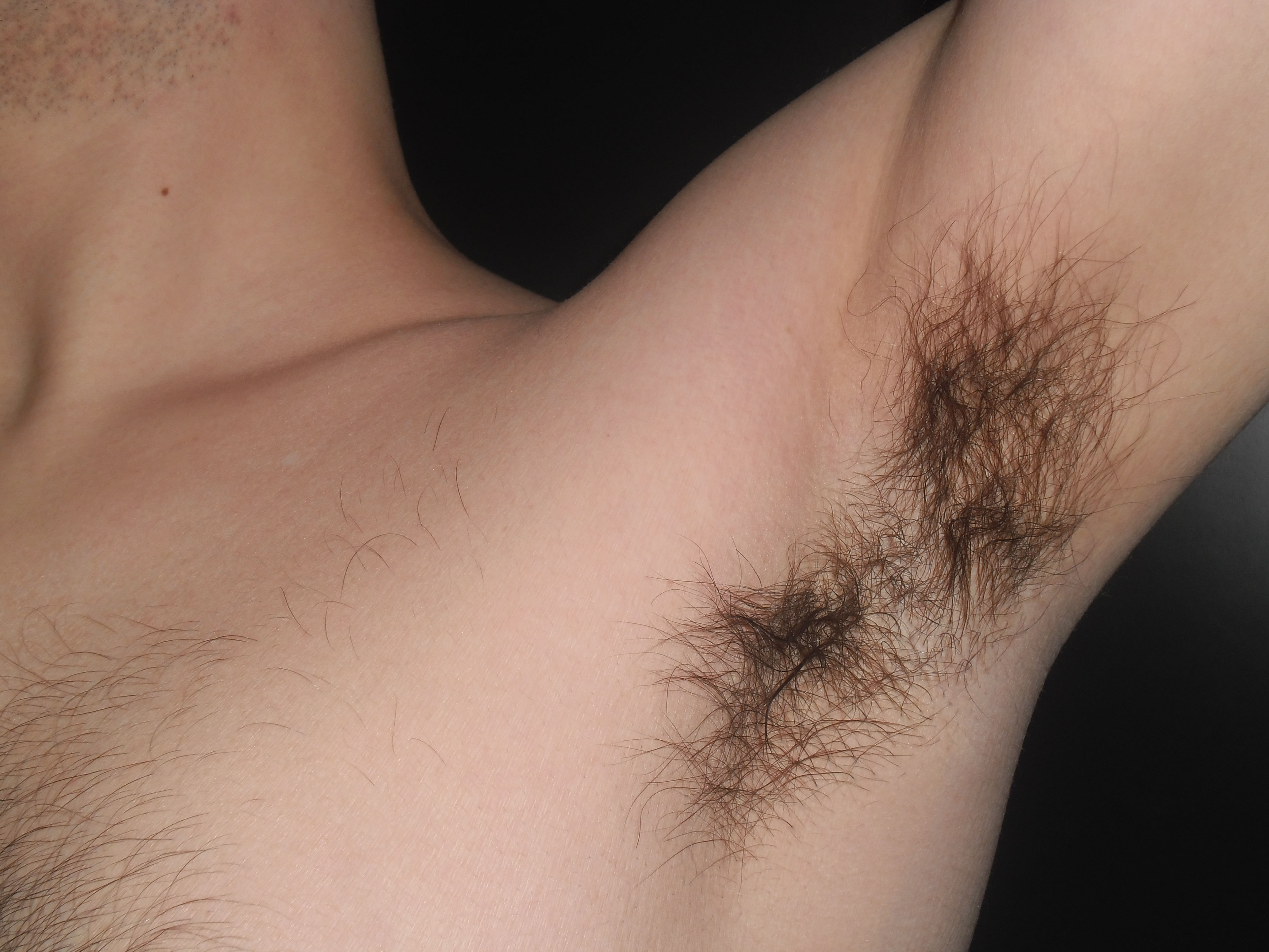 Hairy male armpit